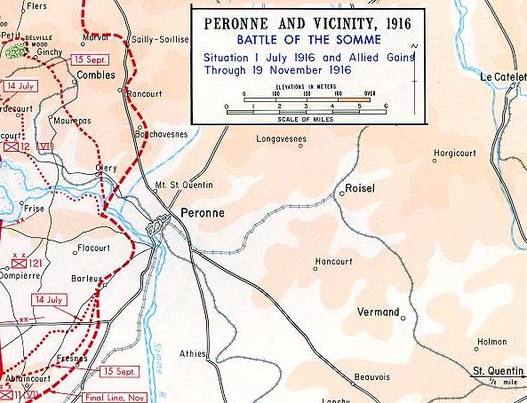 Map of Péronne (Somme) in 1916 showing Mont St Quentin